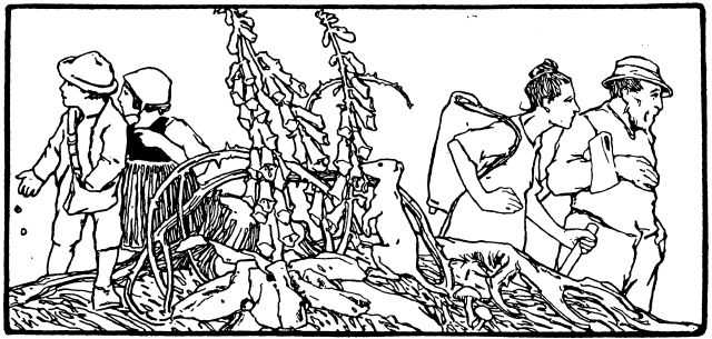 Illustration by Otto Ubbelohde to the fairy tale Hansel and Gretel